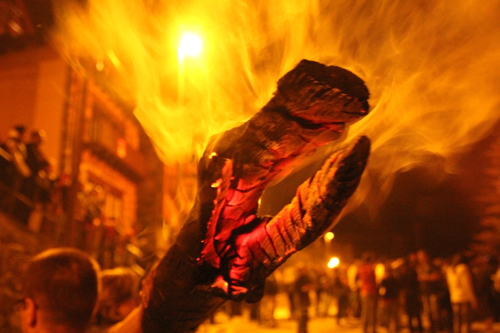 "Fallaire"